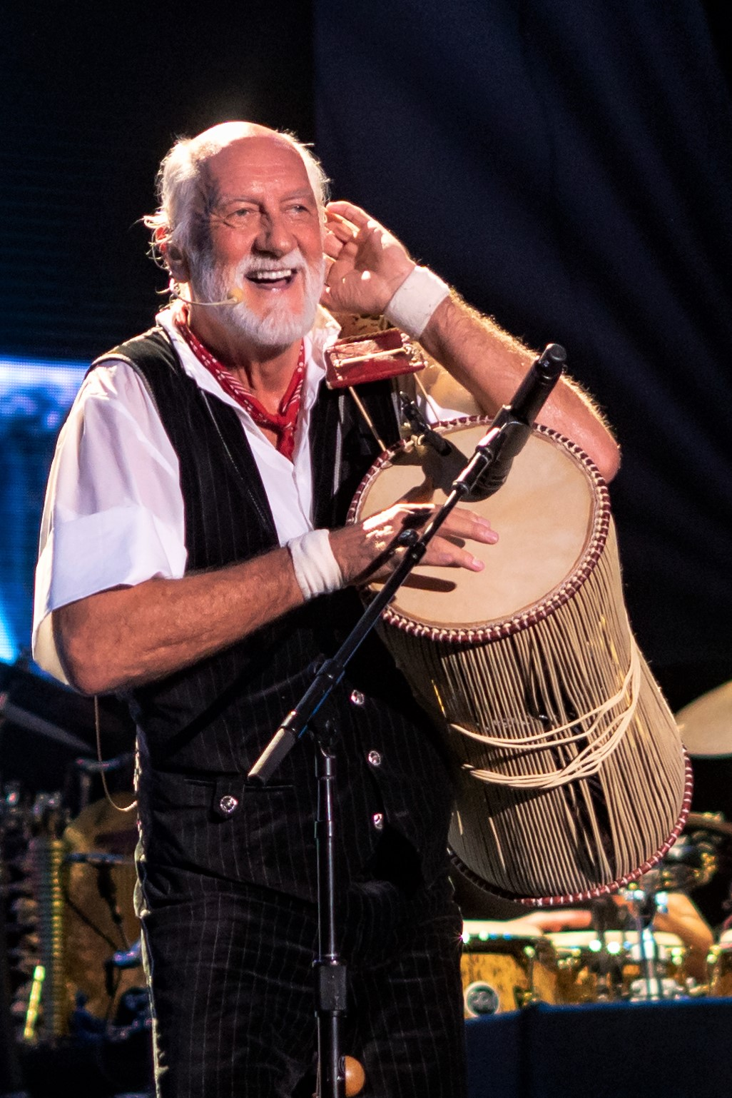 Fleetwood Mac - BOK Center Tulsa - Wednesday 3rd October 2018